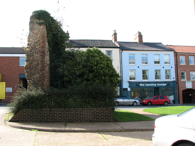 The ruined St Bartholomew's church in Ber Street, Norwich